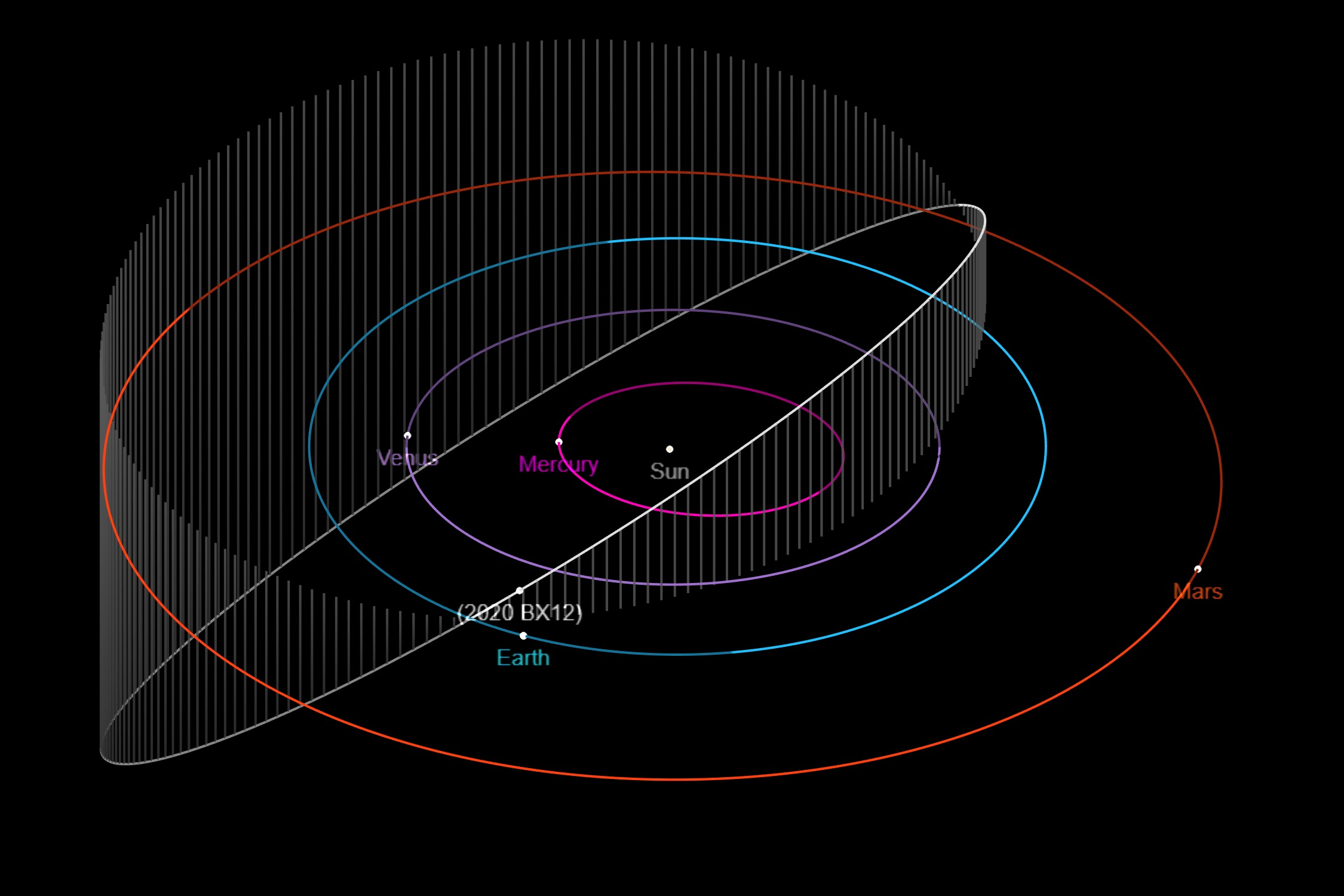 Side view of the highly eccentric and inclined orbit of asteroid 2020 BX12, generated by the Jet Propulsion Laboratory's JPL Small-Body Database Browser.